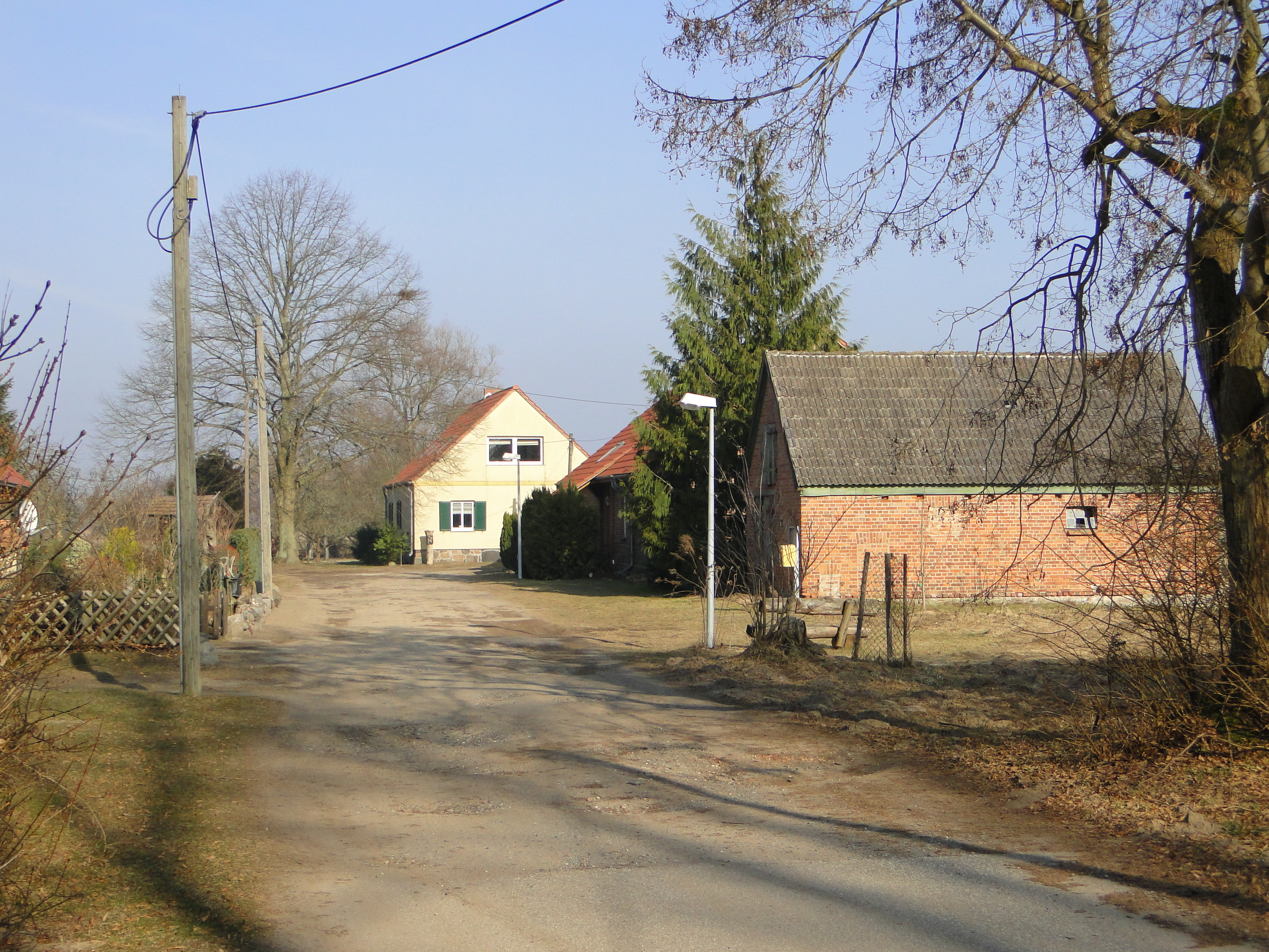 Village view in Bossow, district Güstrow, Mecklenburg-Vorpommern, Germany